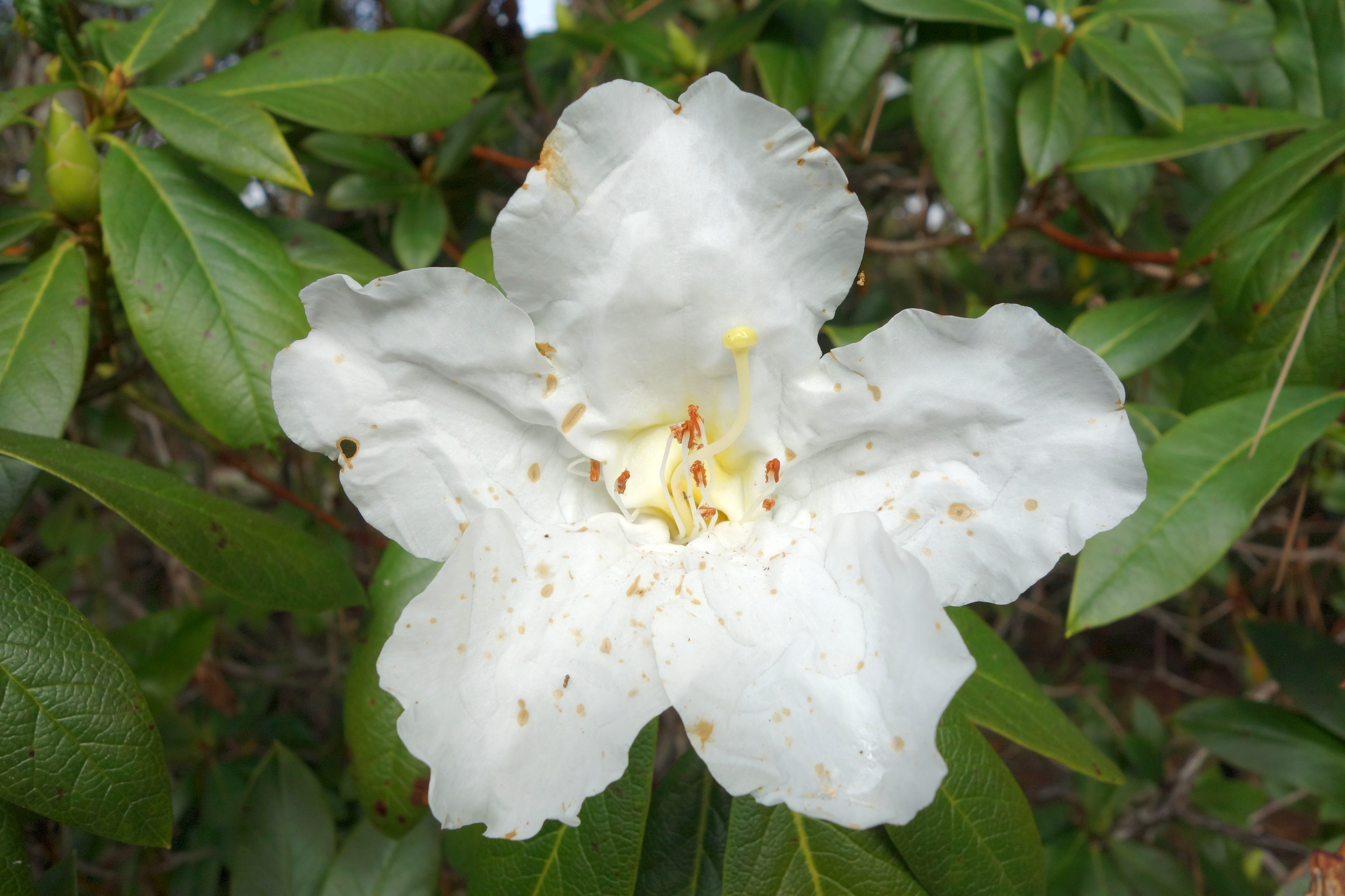 Botanical specimen in the Mendocino Coast Botanical Gardens, 18220 N Hwy 1, Fort Bragg, California, USA.